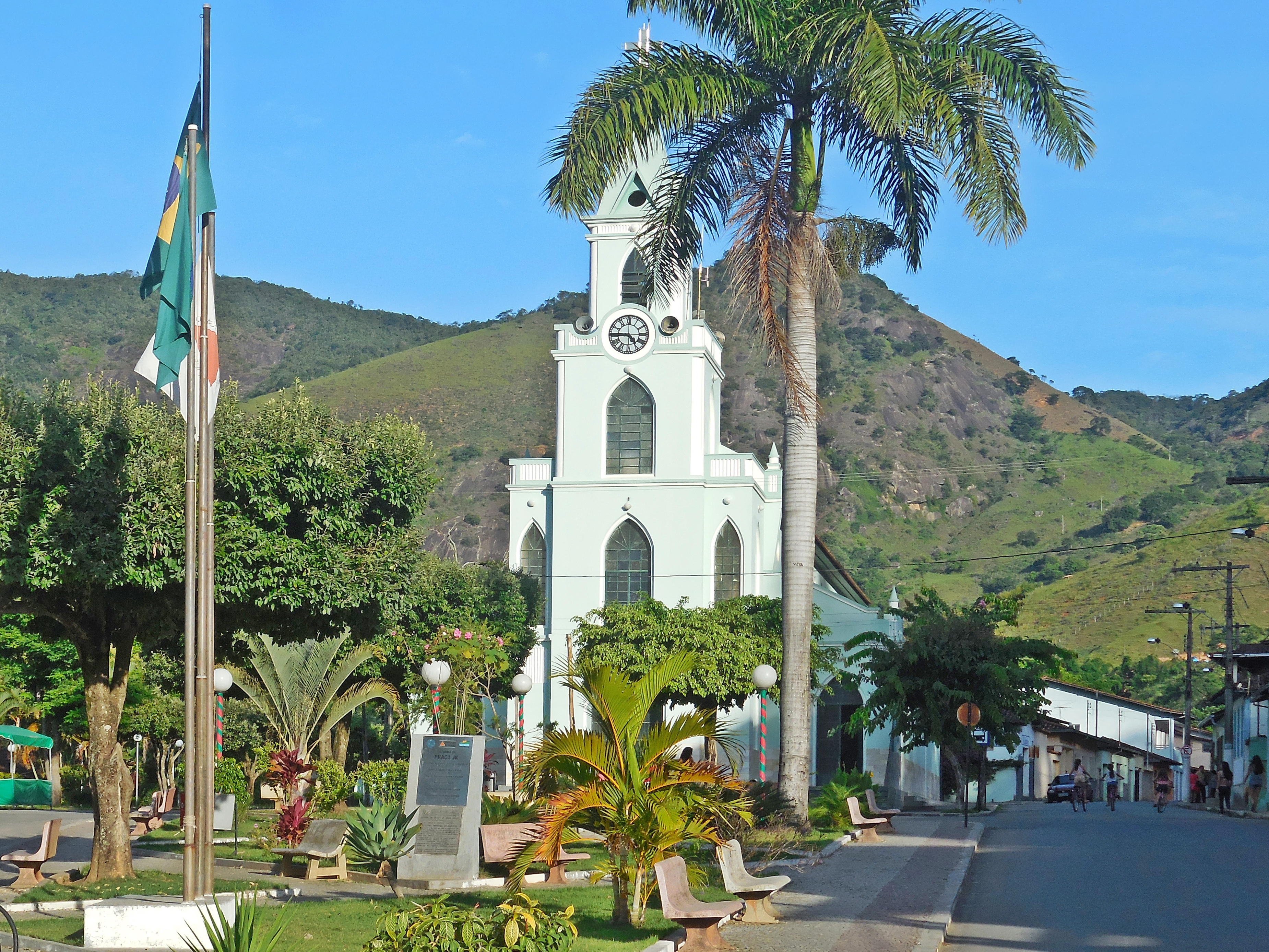 View of the JK square with the Our Lady of Sorrows Mother Church in the background, in Marliéria, Minas Gerais, Brazil.